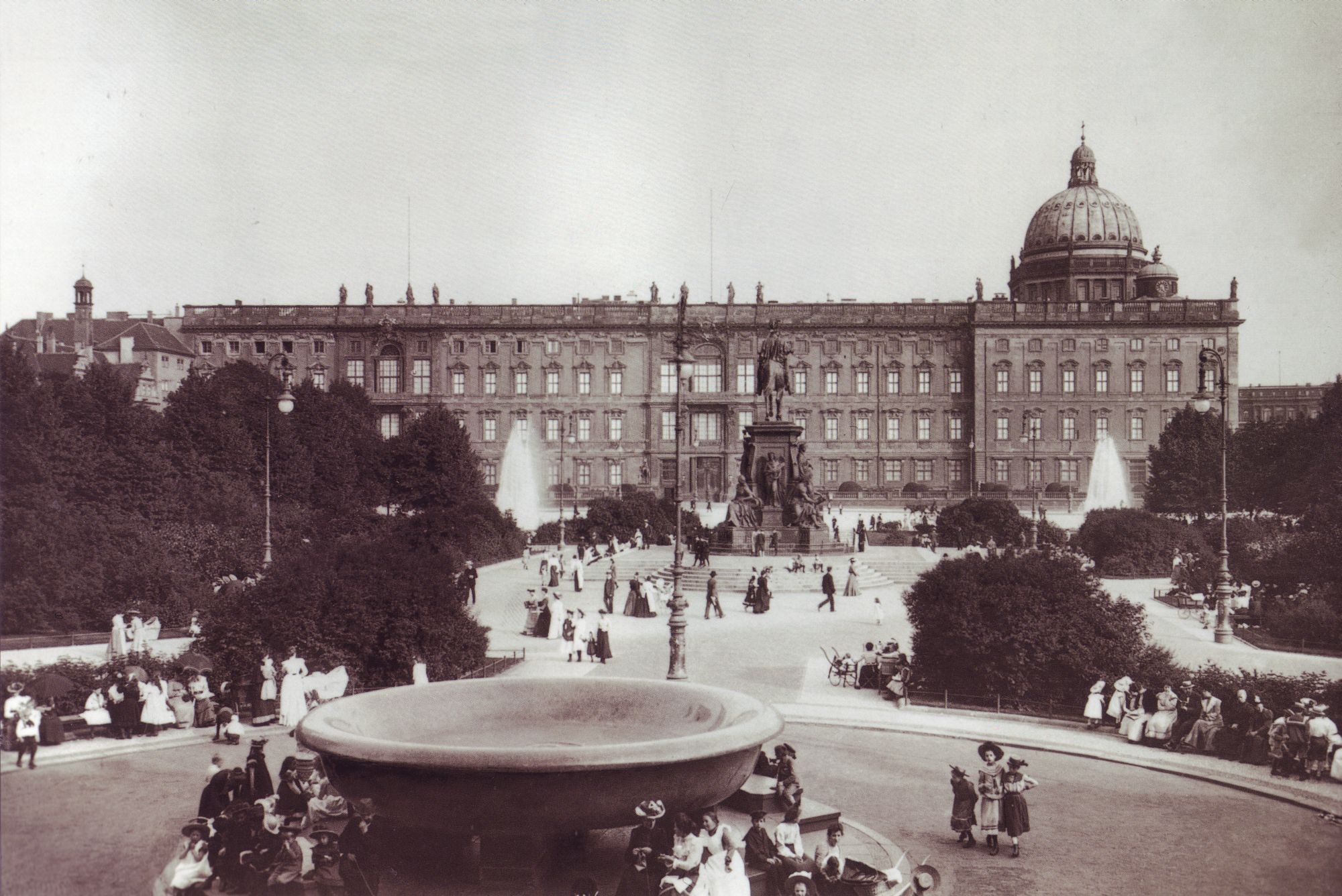 Pleasure Garden in Berlin.